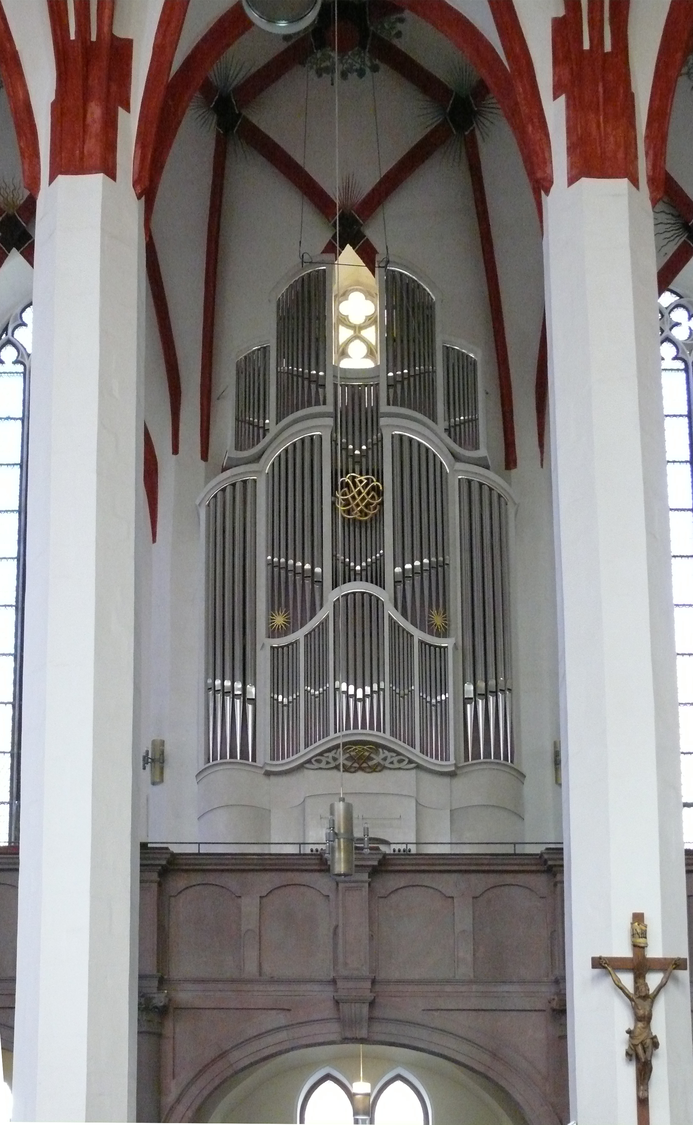 Interior of Thomaskirche, Leipzig, Germany.